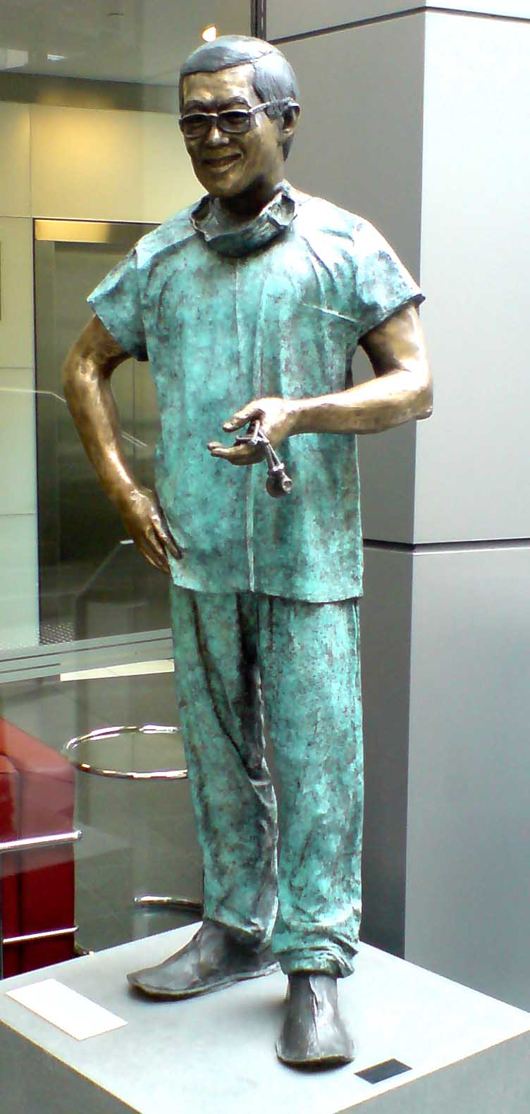 Statue of Victor Change outside the Victor Change Cardiac Research Institute, Sydney NSW. Sculpted by Linda Klarfeld. Bronze cast by Crawford's Casting.